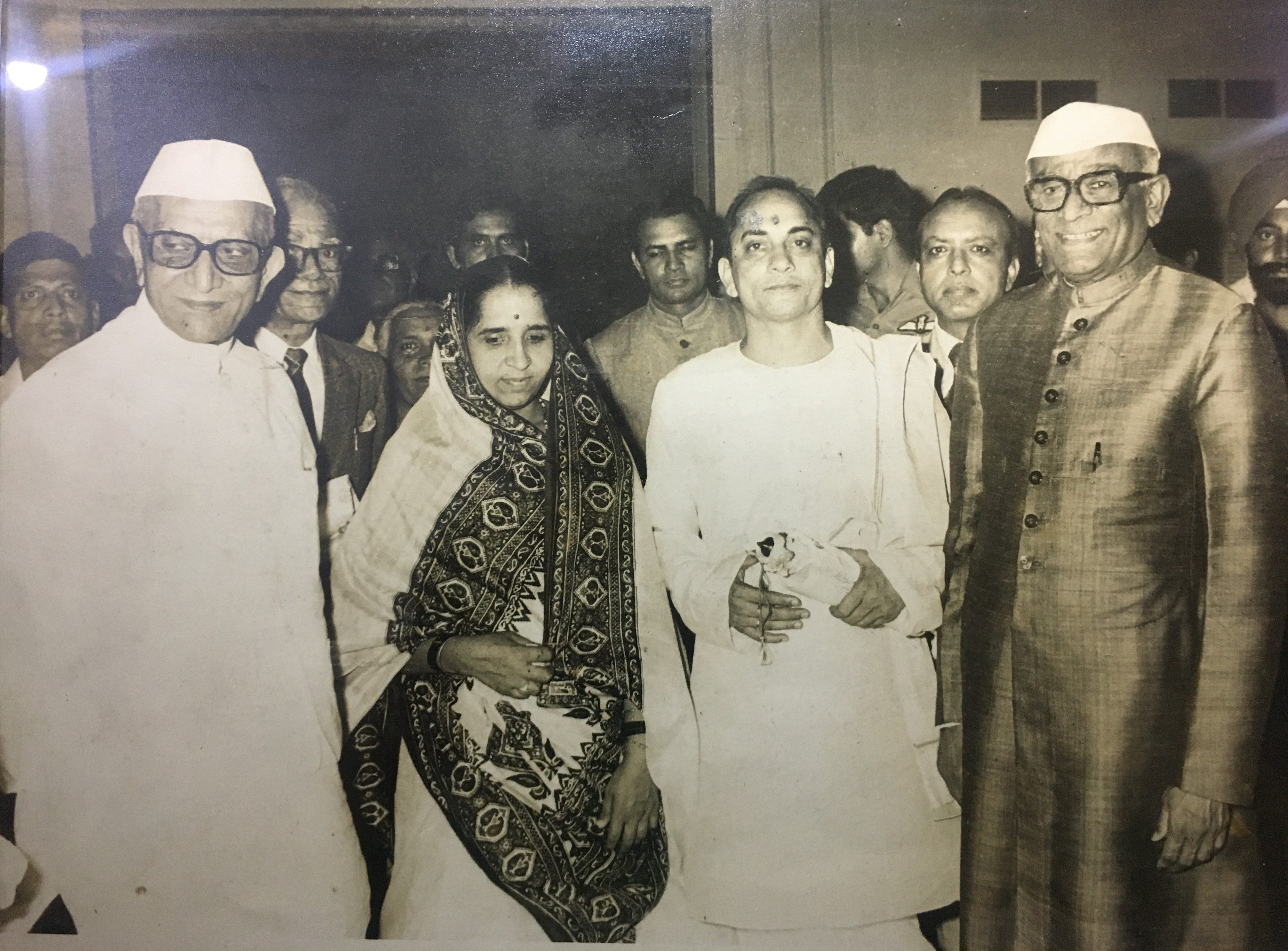 After becoming the youngest ever recipient of India's highest literary award for Sanskrit, the 1978 Certificate of Honour by President of India, at the bestowing ceremony in 1979 at Rashtrapati Bhavan (the President's residence and office complex). Prime Minister Morarji Desai on left, President Neelam Sanjeev Reddy on the right.